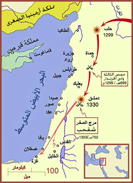 Map showing the Mongol attacks in the Levant in 1299 and 1303.